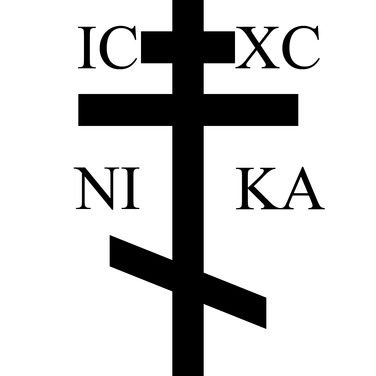 Standard cross used in Eastern Orthodox Churches